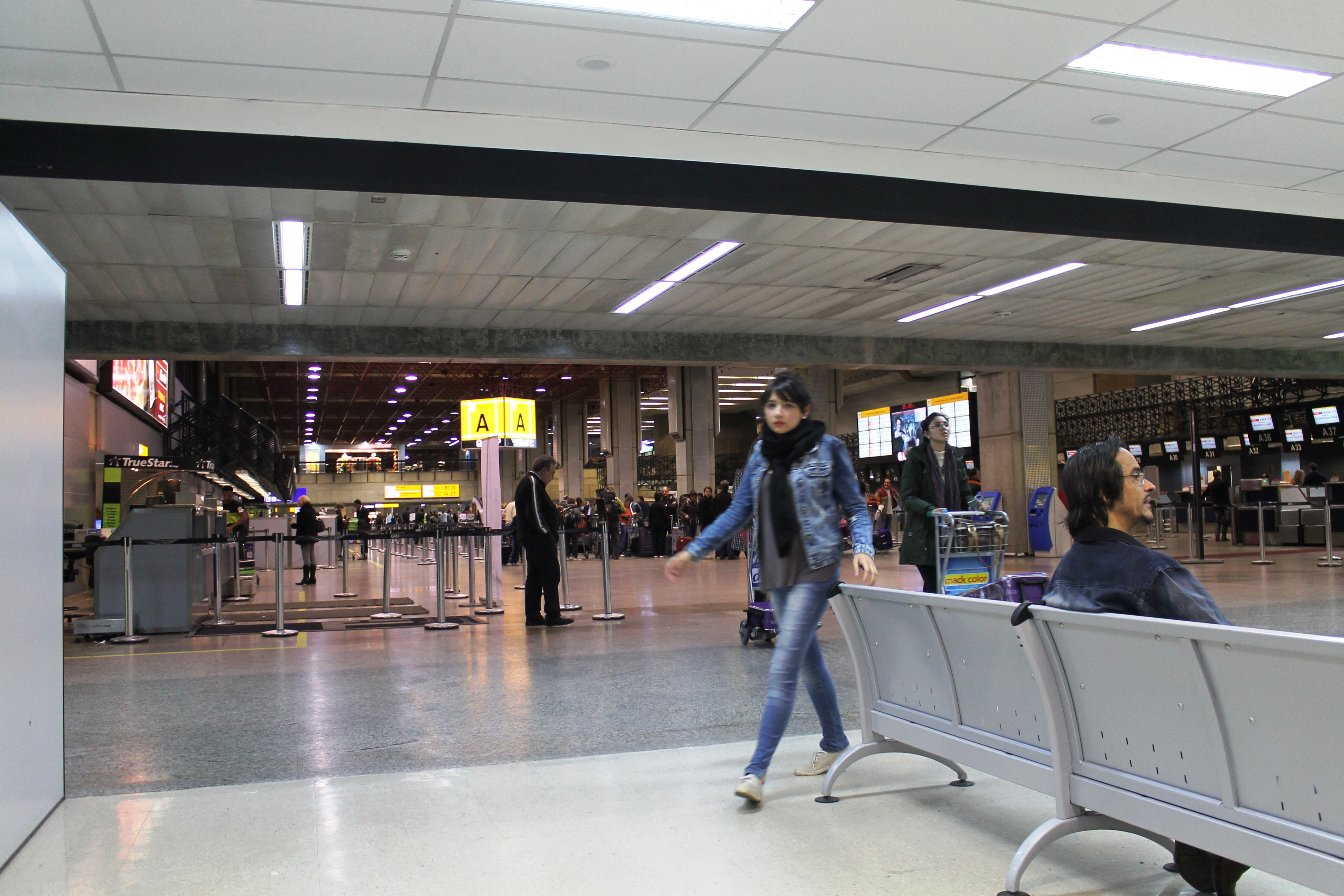 Departures Area for ticketting booth. Sao Paolo Airport, Brazil